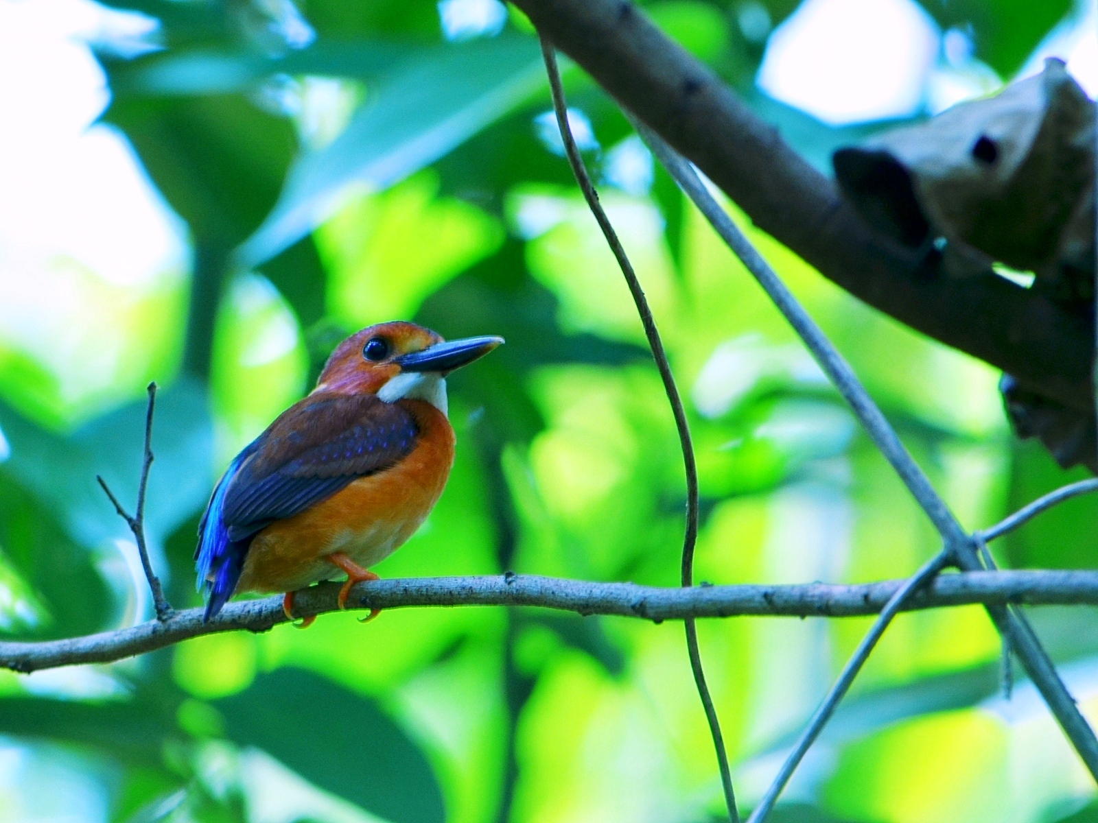 Juvenille of Sulawesi Dwarf Kingfisher (Ceyx fallax fallax), found near Warembungan, North Sulawesi.